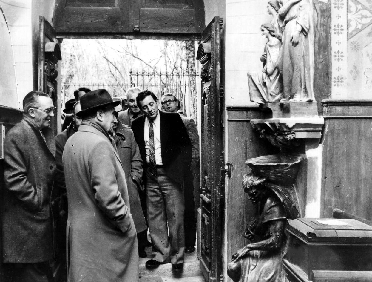 Visite of Socialist François Mitterrand to Rennes-le-Château during the 1981 French Presidential campaign.